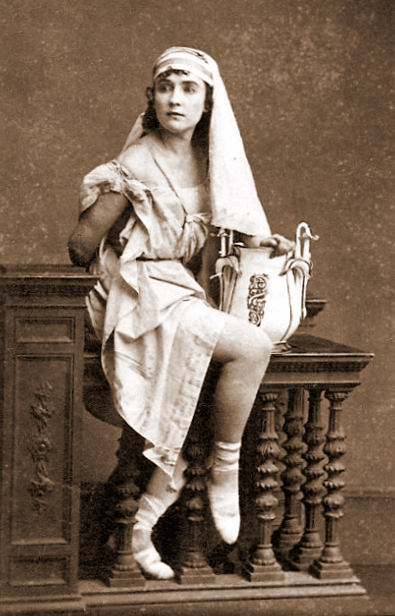 Charles D. Fredricks "Specialite" CDV of actress and poet, Ada Isaacs Menken. From bottom of CDV: ADA ISAACS MENKEN, as French Spy.